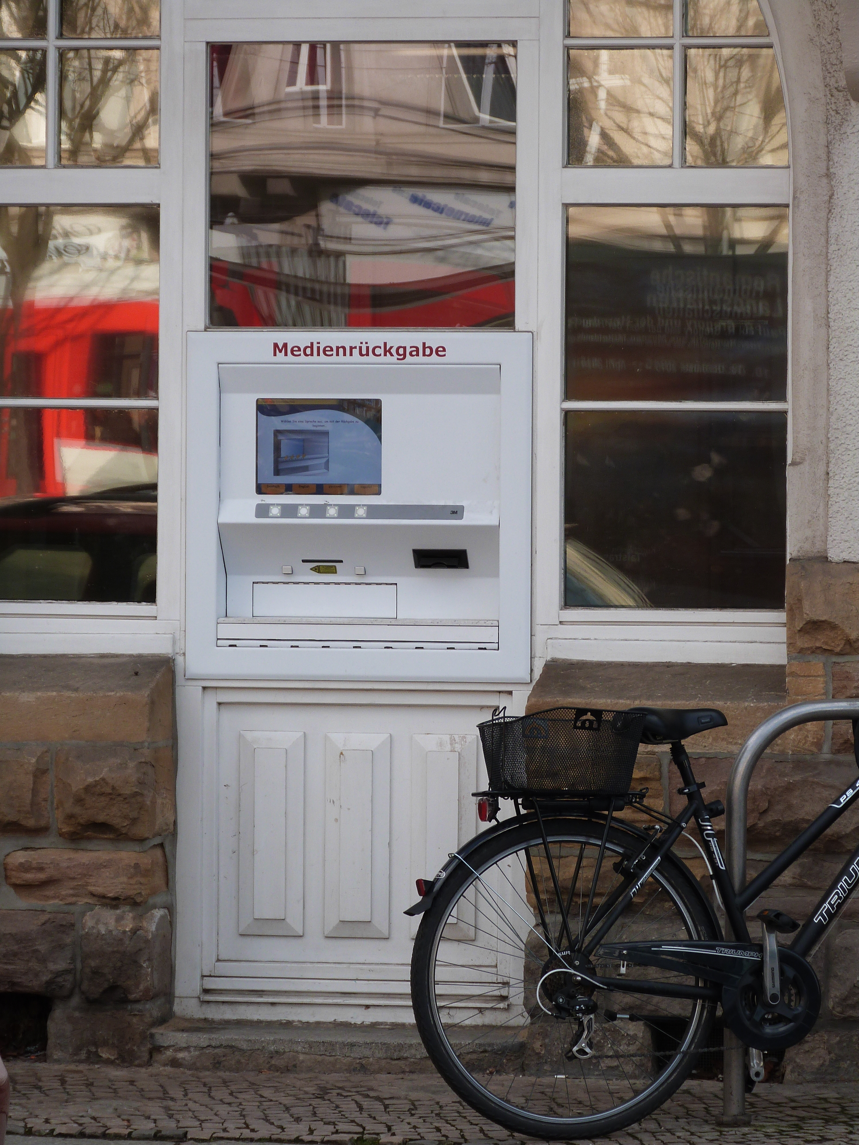 Public library, Salzgrafenstrasse No. 2, Halle (Saale)